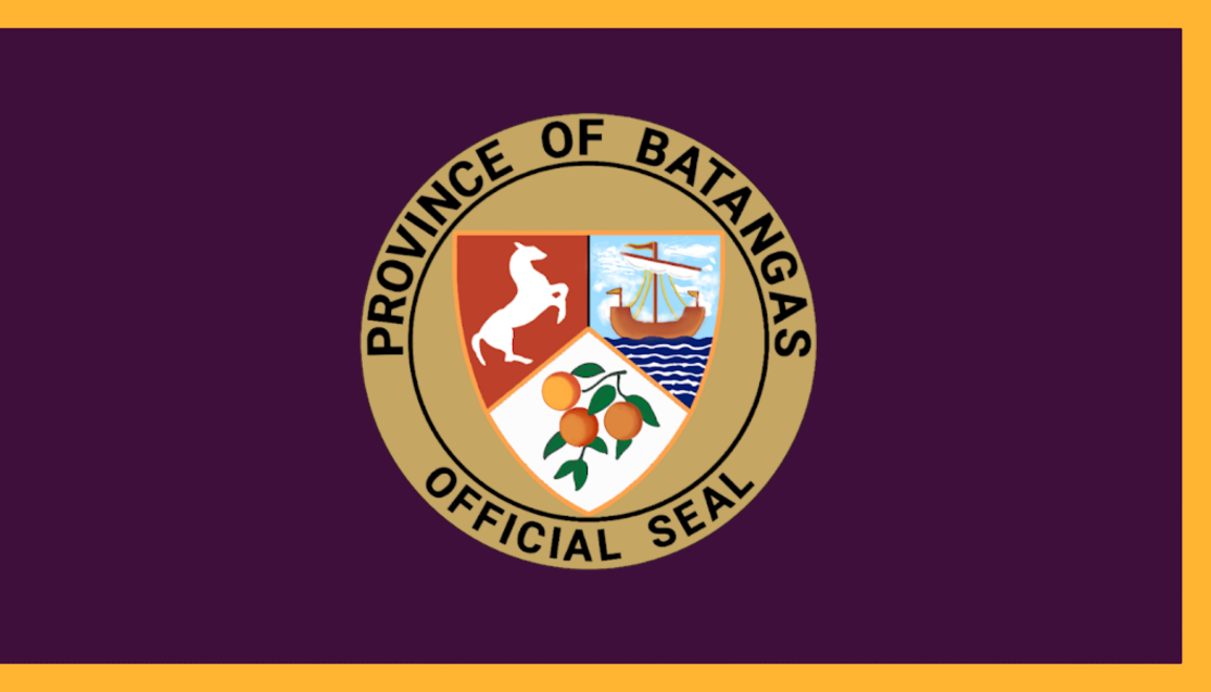 Flag of Batangas, designed in 1975